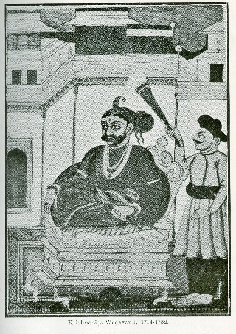 Early miniature painting of Dodda Krishnaraja I, ruler of Mysore from 1714 to 1732.